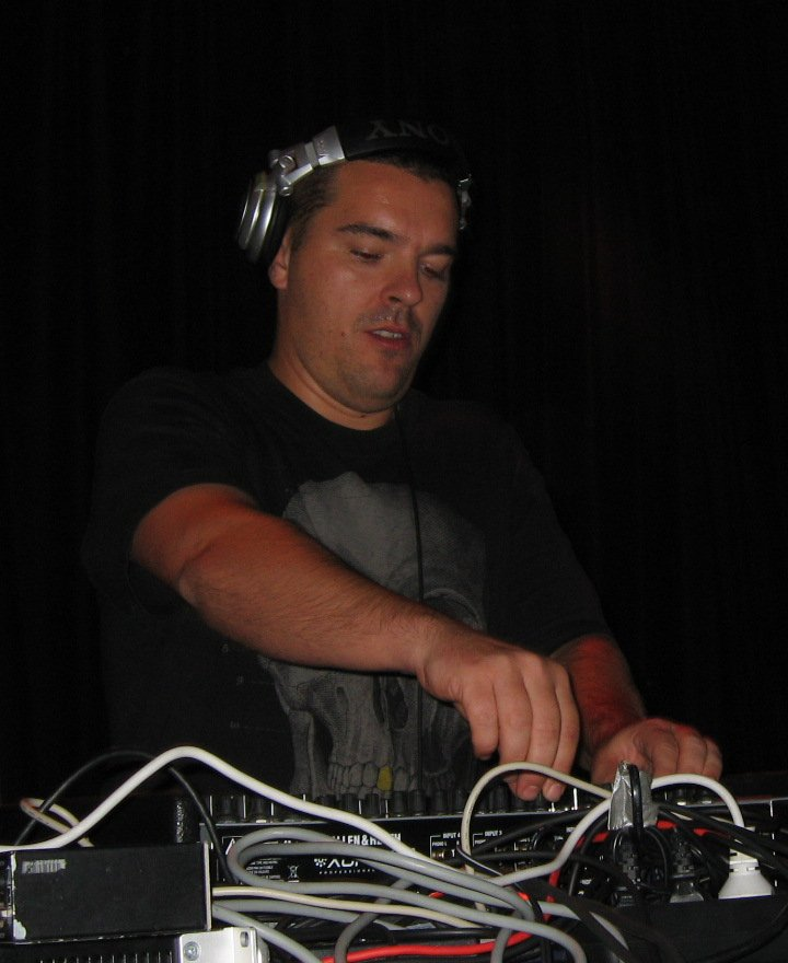 Dutch techno musician Speedy J (Jochem George Paap) performing (together with VJ Scott Pagano - not shown) at Decibel festival, Seattle/USA, September 2006 [1]